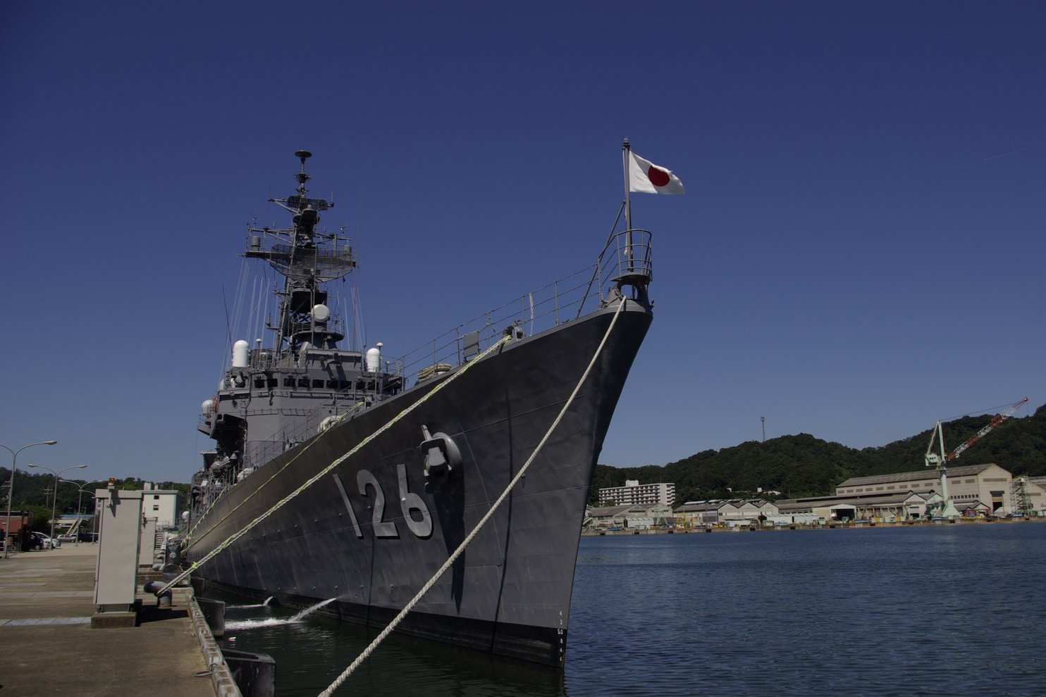 JS Hamayuki (DD-126) at Maizuru Naval Base. Pentax K10D